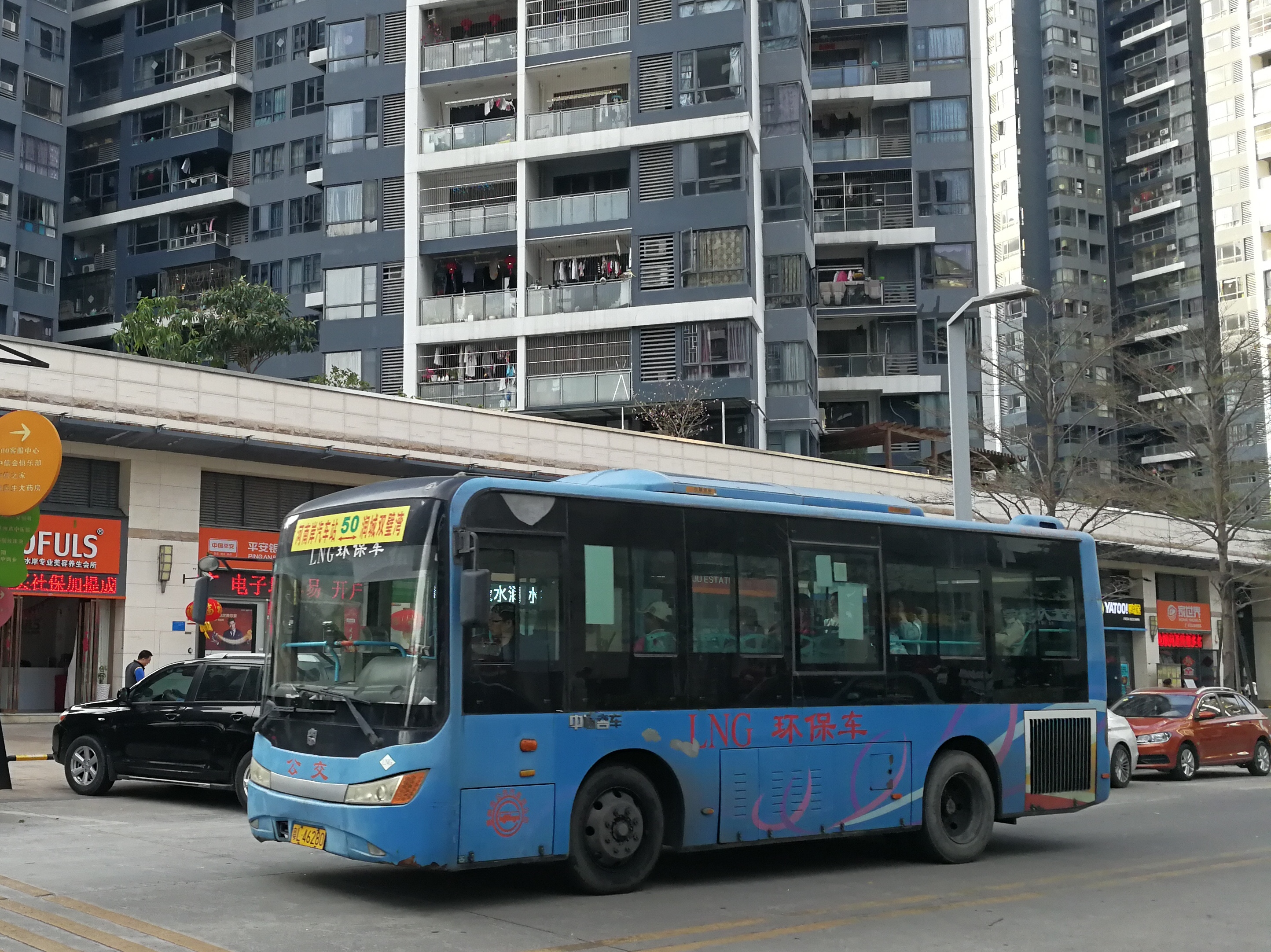 A Zhongtong LCK6820HGC bus which is powered by liquid natural gas and enlisting on HZCI Bus Co,ltd Route 50. The plate number of this bus is "粤L•46280" . The photo was taken in front of the Sales Center of Waterfront City.